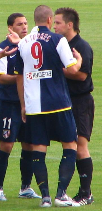 Fernando Torres. Image cropped from original at flickr.